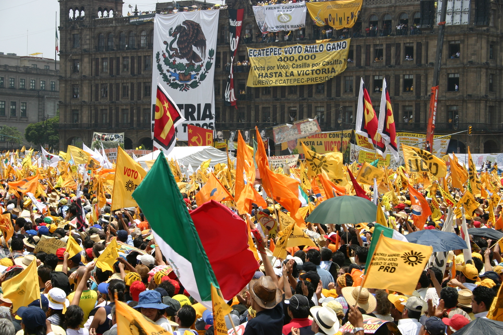 Third Informative Assembly, Mexico City, July 30 2006.